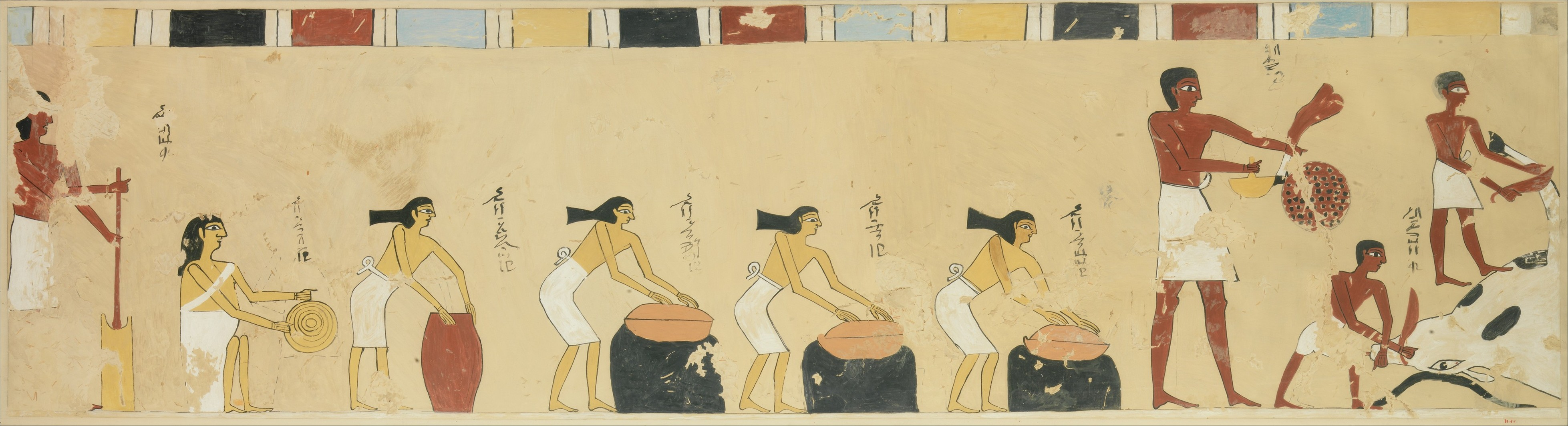 Facsimile, Djari (TT 366)